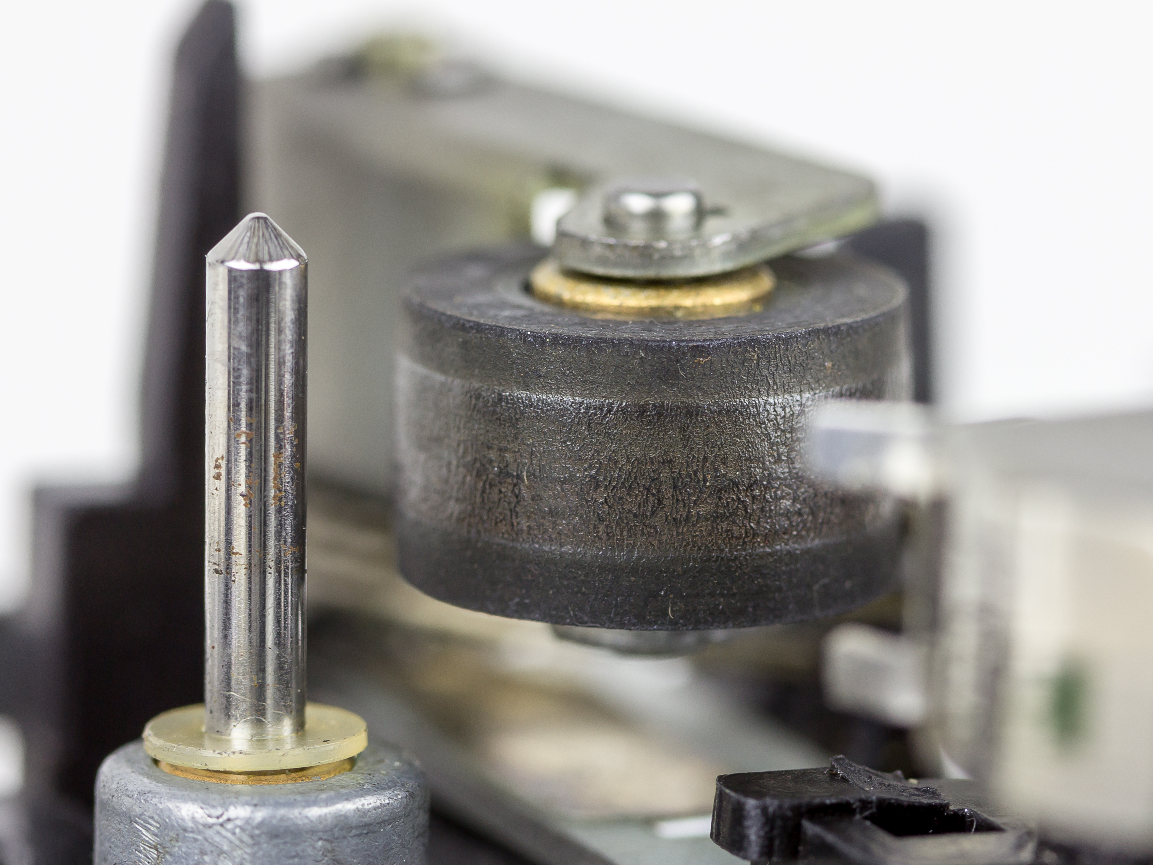 JVC KD-A22 - Capstan and Pinch Roller